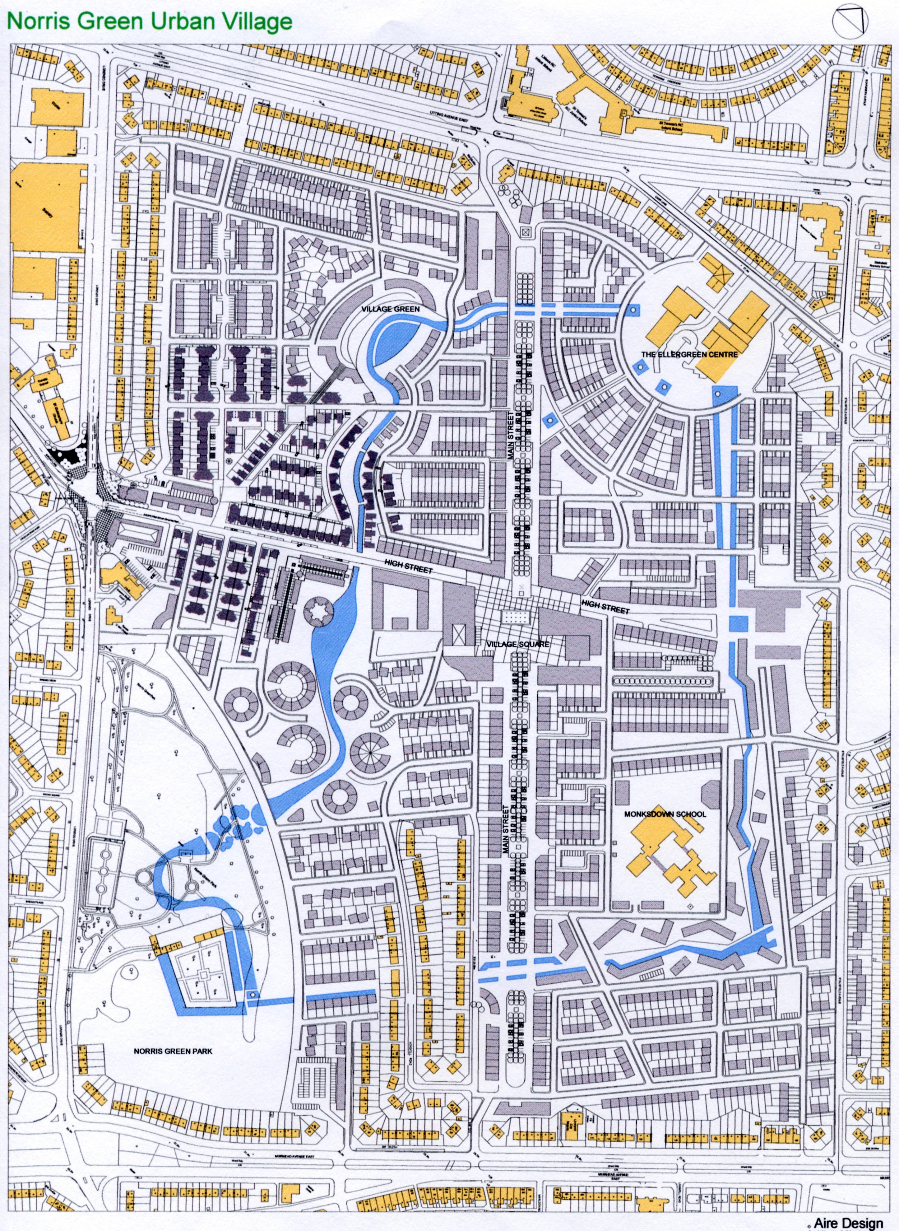 Featured images for Douglas Jarvie Clelland Wikipedia article